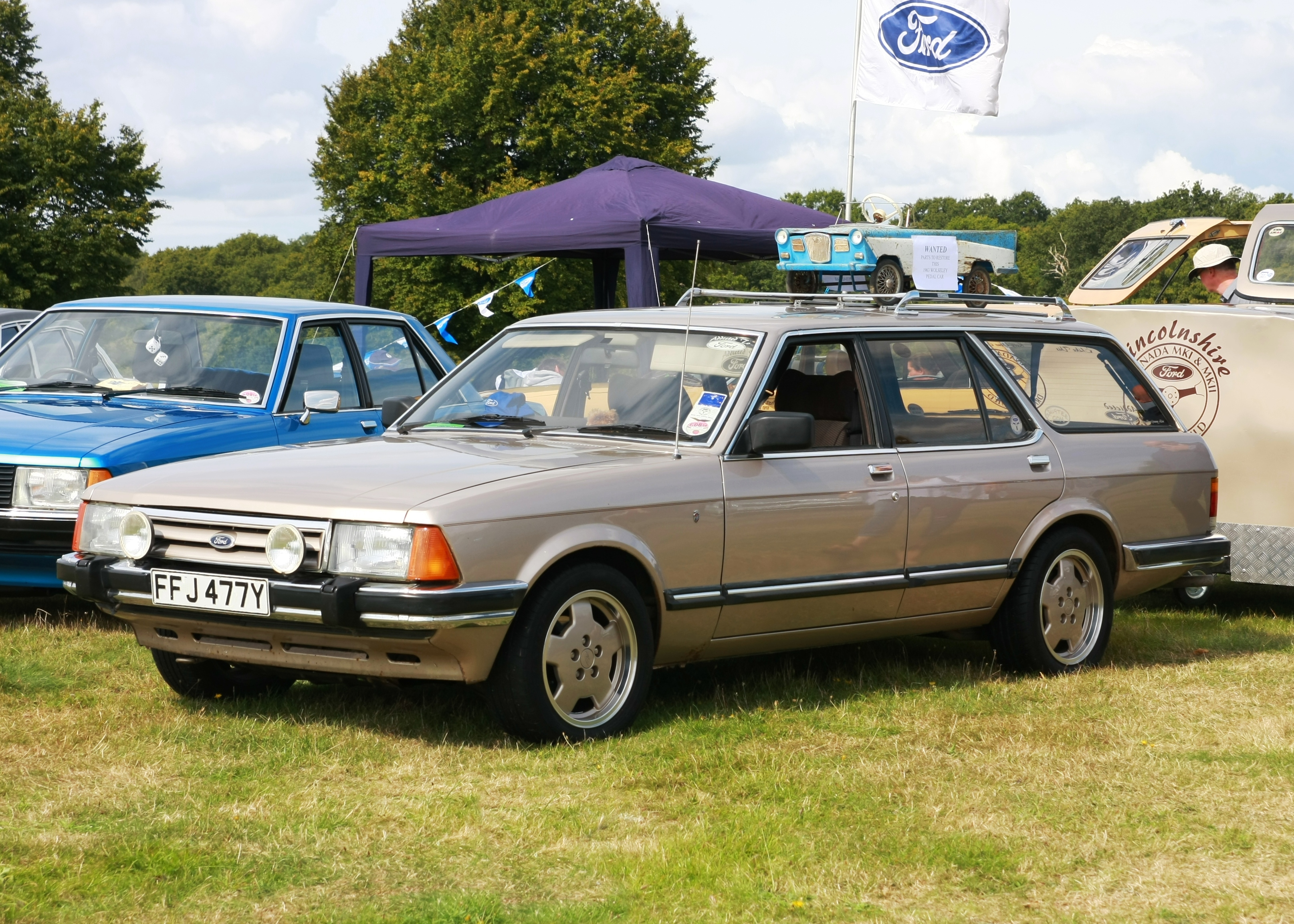 Ford Granada estate (1982) at Knebworth (2014)